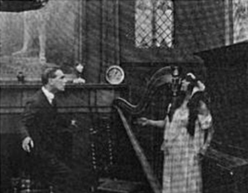 Arthur Maude and Constance Crawley in the film The Wraith of Haddon Towers (1916).